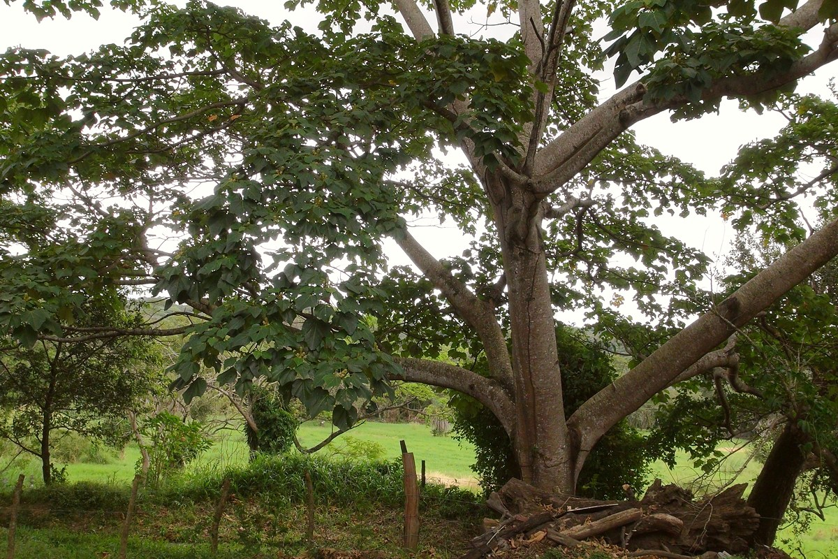 Ochroma pyramidale, balsa tree. Costa Rica, prov. Guanacaste, Hacienda Guachipelin near Rincon de la Vieja.